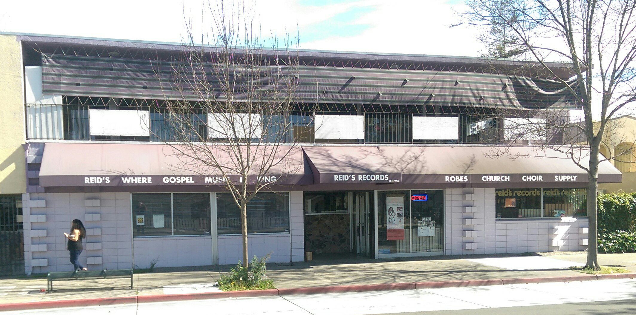 Reid's Records in Berkeley, California, which has been in busijess for over 70 years. Photo by Jim Heaphy.